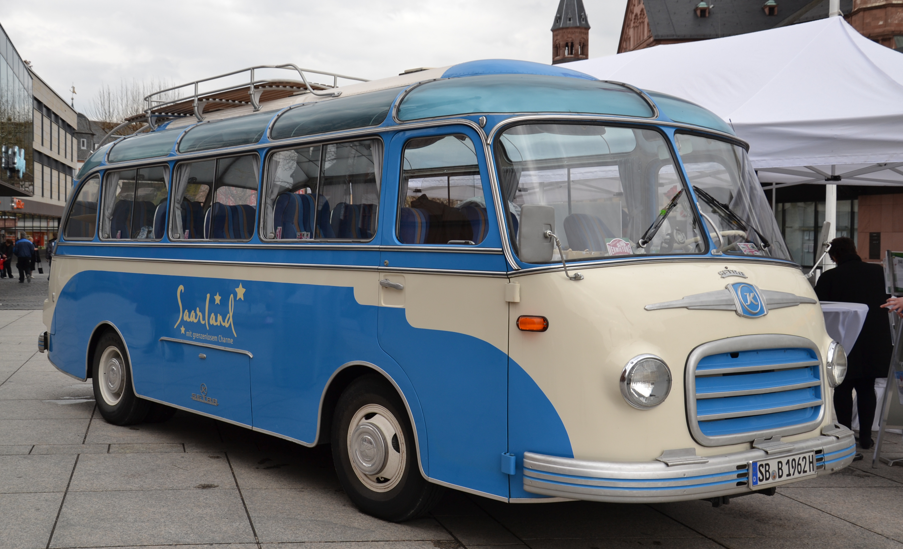 Setra S 6 in Mainz, Germany